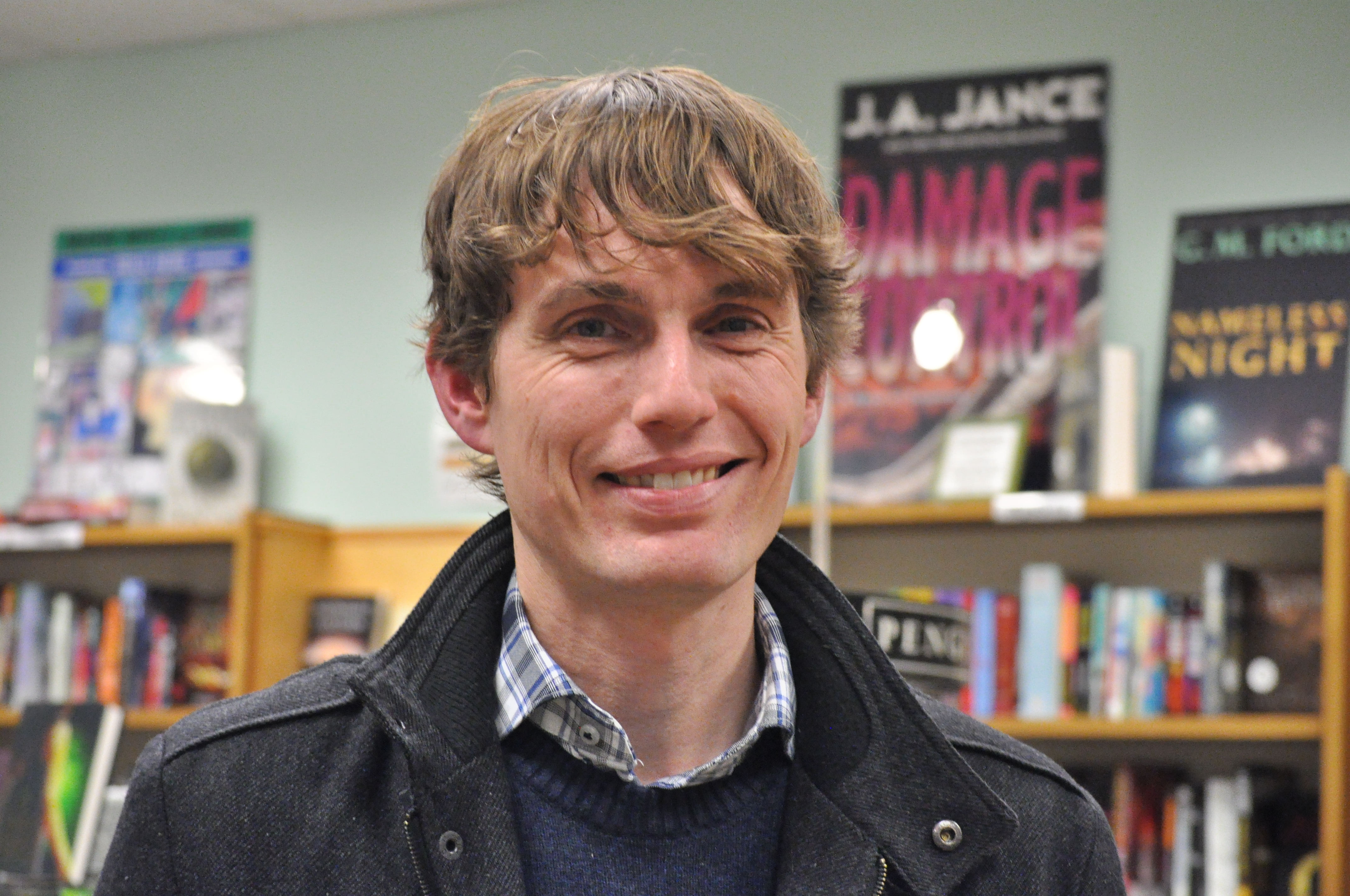 Author and musician Kevin Emerson photographed at Secret Garden Books, Ballard, Seattle, Washington.